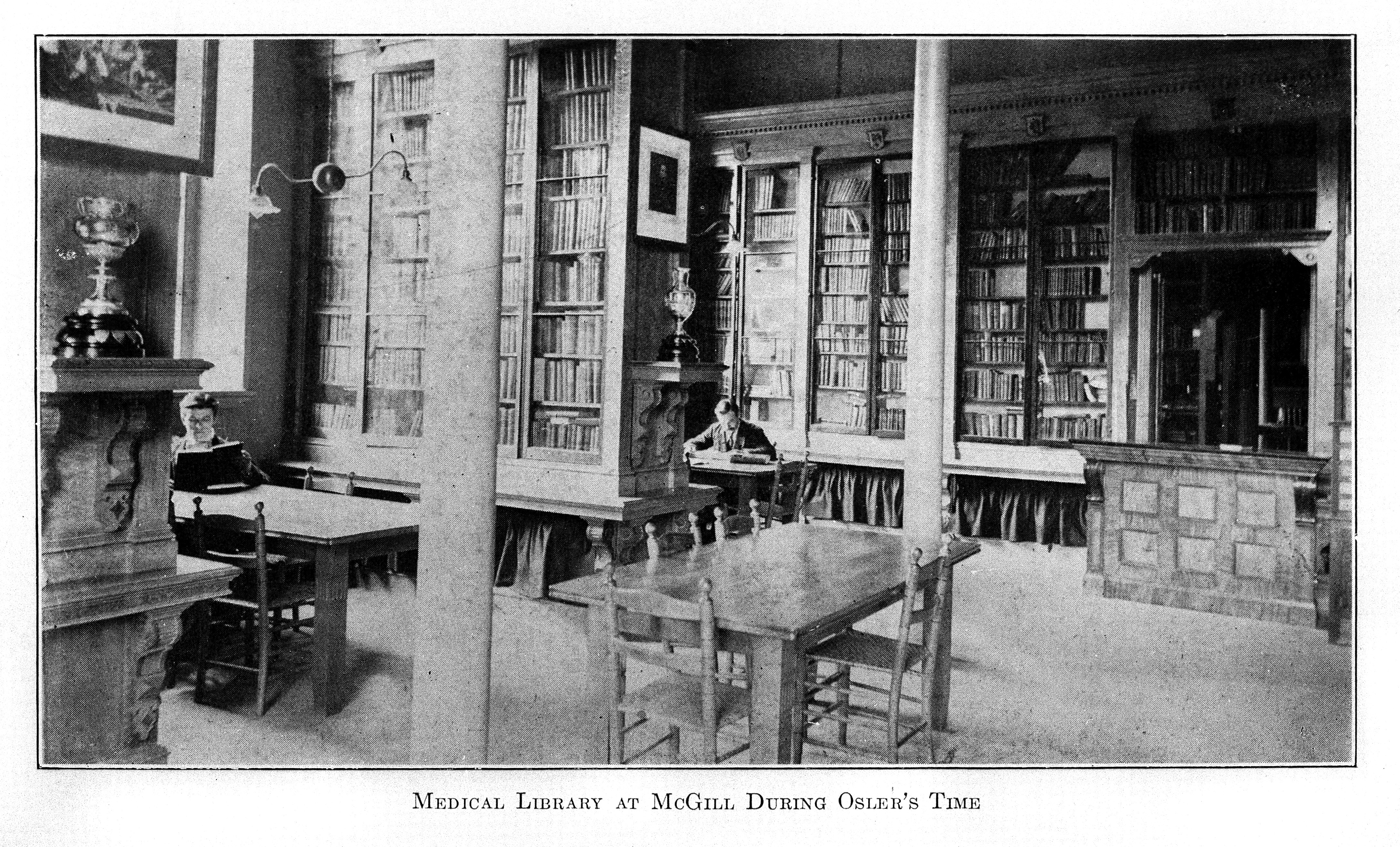 McGill University, Montreal. The Medical Library during Osler's time. General Collections Keywords: Canada; montreal